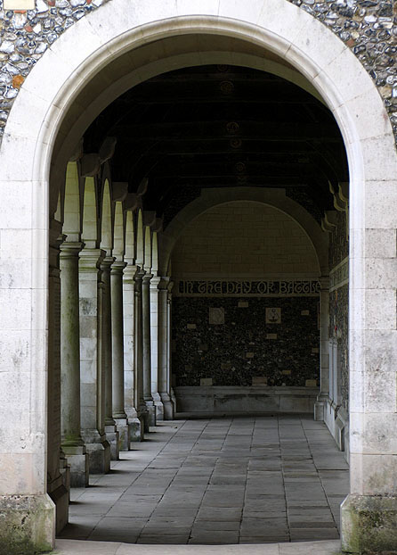 Winchester College: War Cloisters. The entrance to the war cloisters.